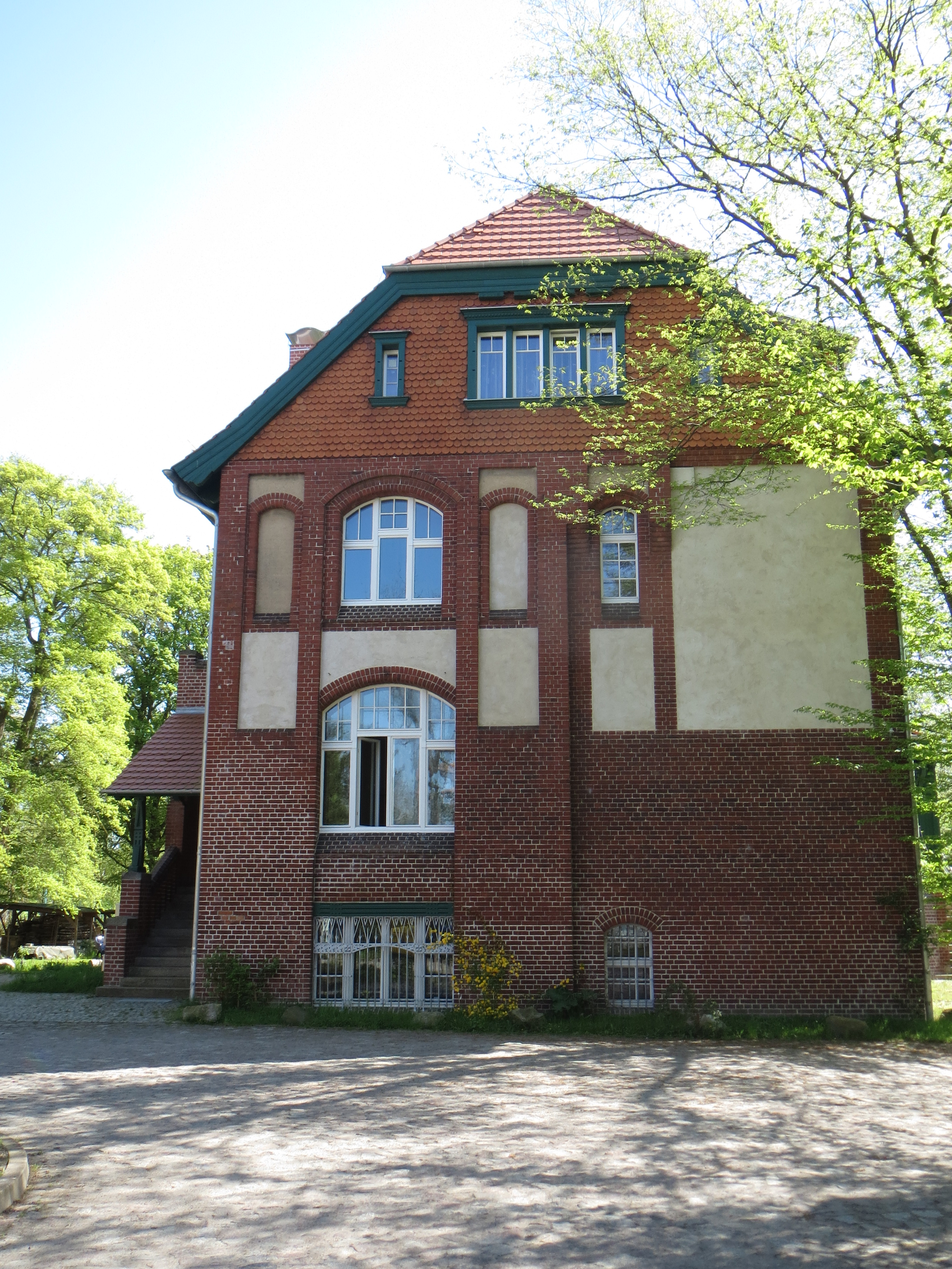 Ellernholzstrasse 2 in Greifswald